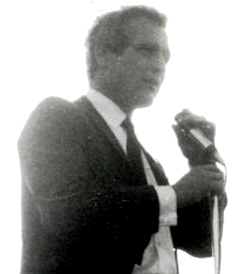 Attribution: Photograph by Christopher Peterson Paul Newman at a political rally for Eugene McCarthy in the parking lot of Kohl's in Menominee Falls, Wisconsin, 1968.